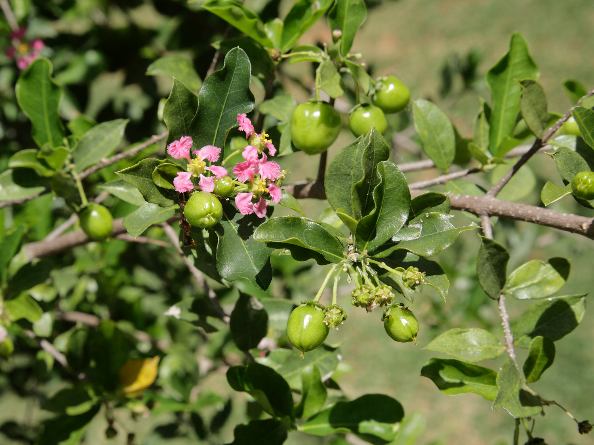 Close-up of the blossom and unripe fruits of a Brazilian acerola (Malpighia glabra).